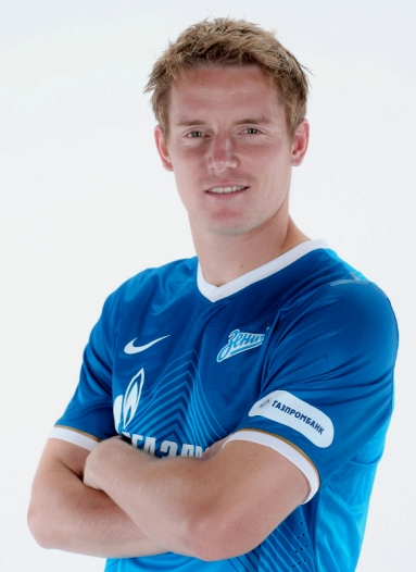 Tomáš Hubočan